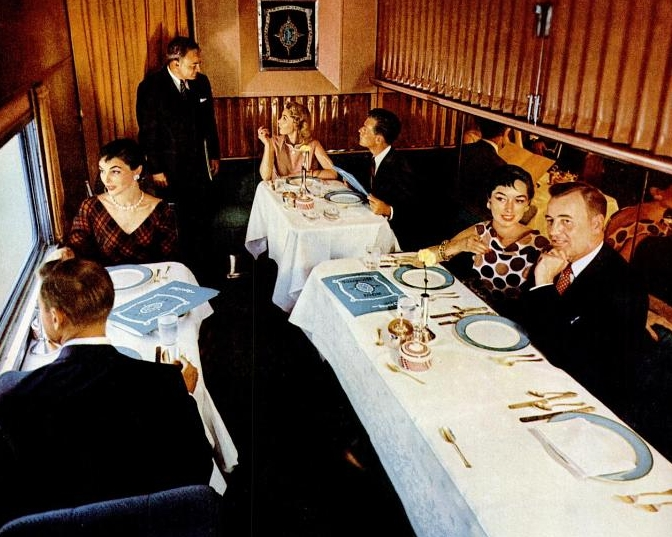 Photo of the Turquoise Room, which was a private dining area on the Santa Fe Super Chief which could be reserved by passengers for special occasions.